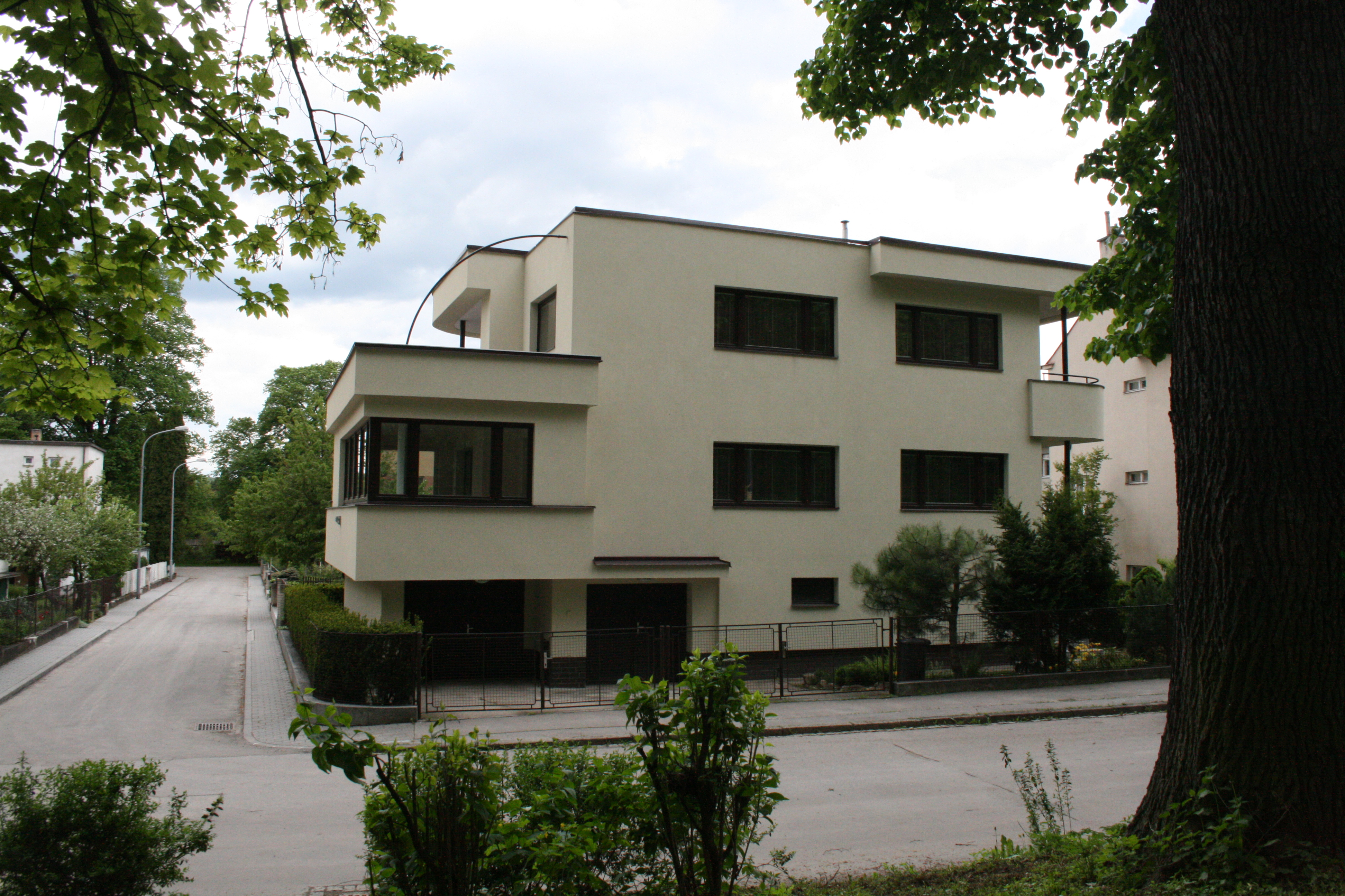 "Nový dům" (New House) settlement - 16 functionalist houses built in 1928 on occasion of an annual exhibition of contemporary culture, Brno, Czech Republic. Česky: Kolonie Nový dům - obytný komplex 16 funkcionalistických rodinných domků zbudovaných v roce 1928 v rámci jubilejní výstavy soudobé kultury. Dům od architekta Jiřího Krohy na rohu Drnovické a Šmejkalovy ulice, Brno-Žabovřesky.